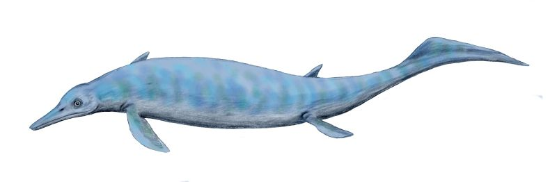 Chaohusaurus geishanensis, an ichthyosaur from the Lower Triassic of China, pencil drawing